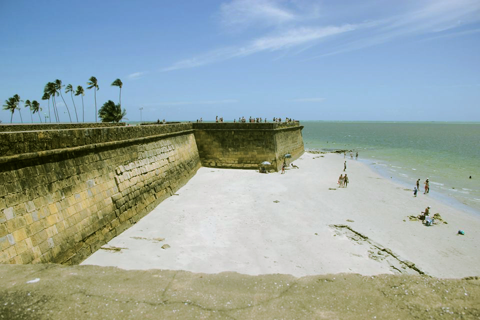 Fort Orange - Itamaracá Island, Pernambuco, Brazil